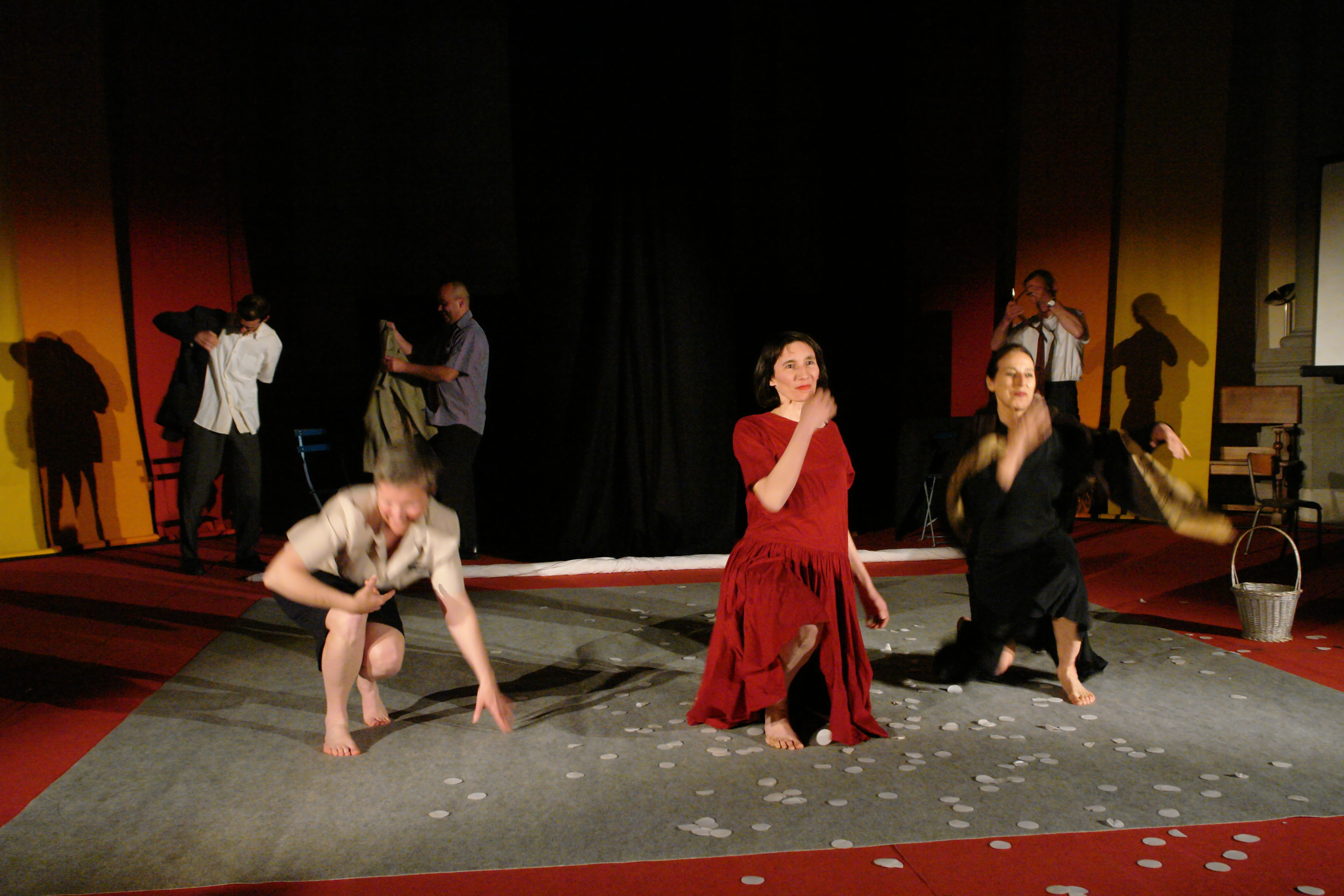 Play "Voices from Chernobyl: The Oral History of a Nuclear Disaster" from Svetlana Alexievitch, Geneva, April 25, 2009.